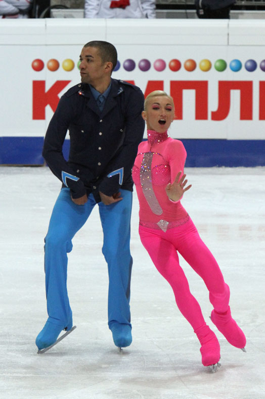 Aliona Savchenko / Robin Szolkowy at the 2011 European Figure Skating Championships.